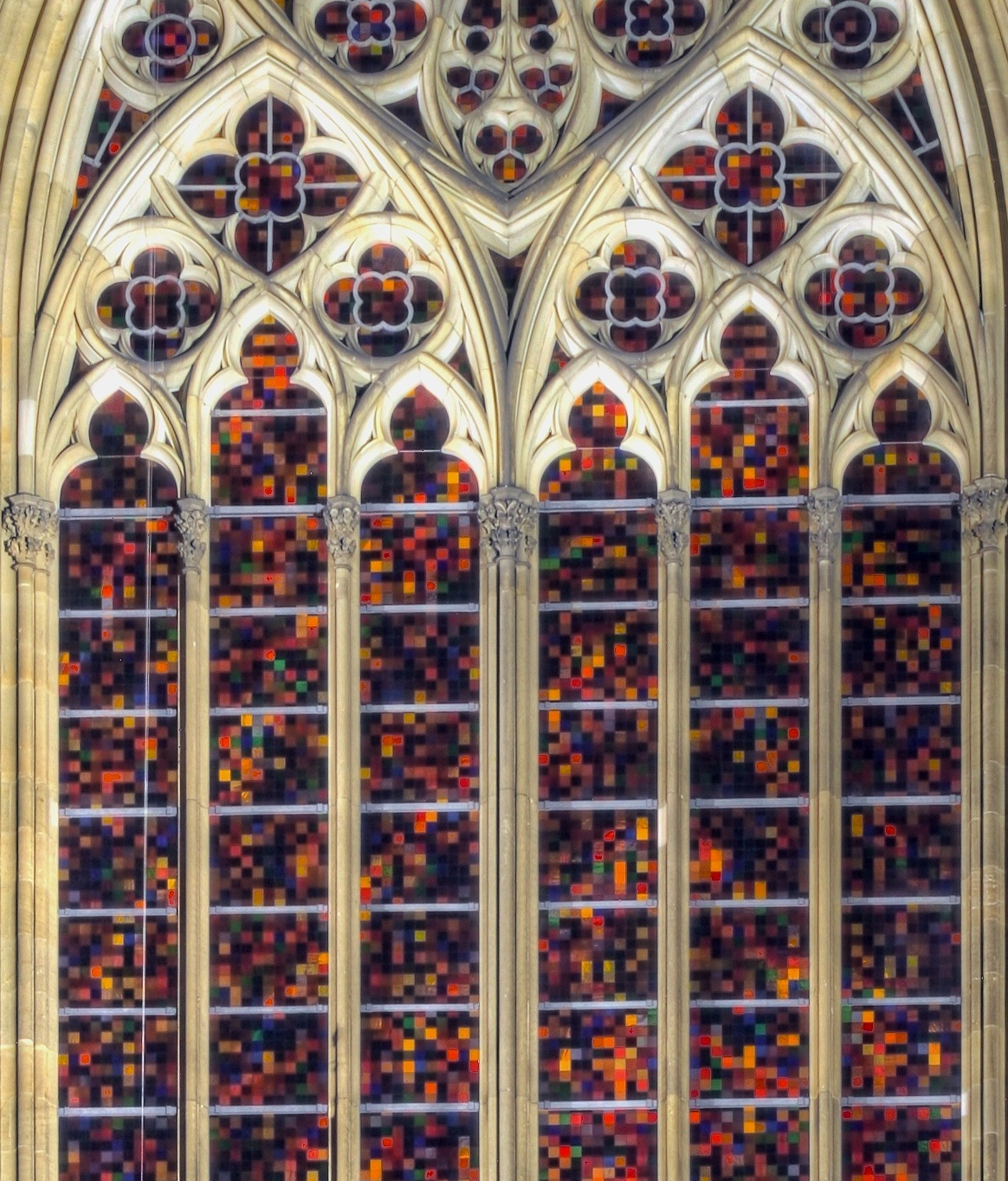 detail of the File:Kölner Dom - Richterfenster an der Südseite bei Nacht (7264-66).jpg